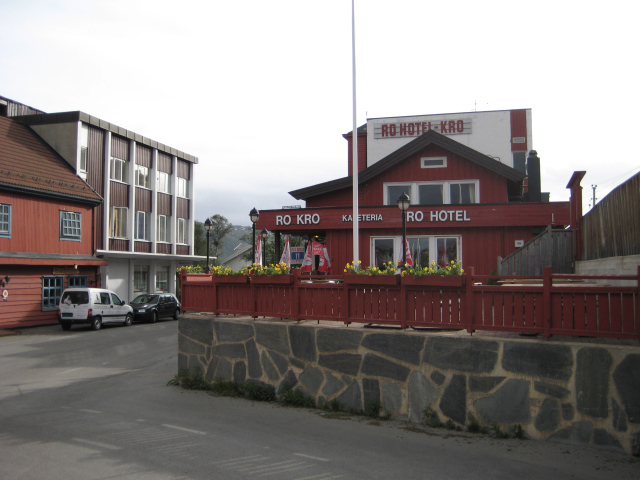 Buildings in Geilo, Hol, Norway, summer 2008.